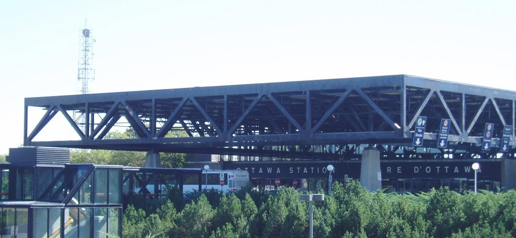 Taken by SimonP